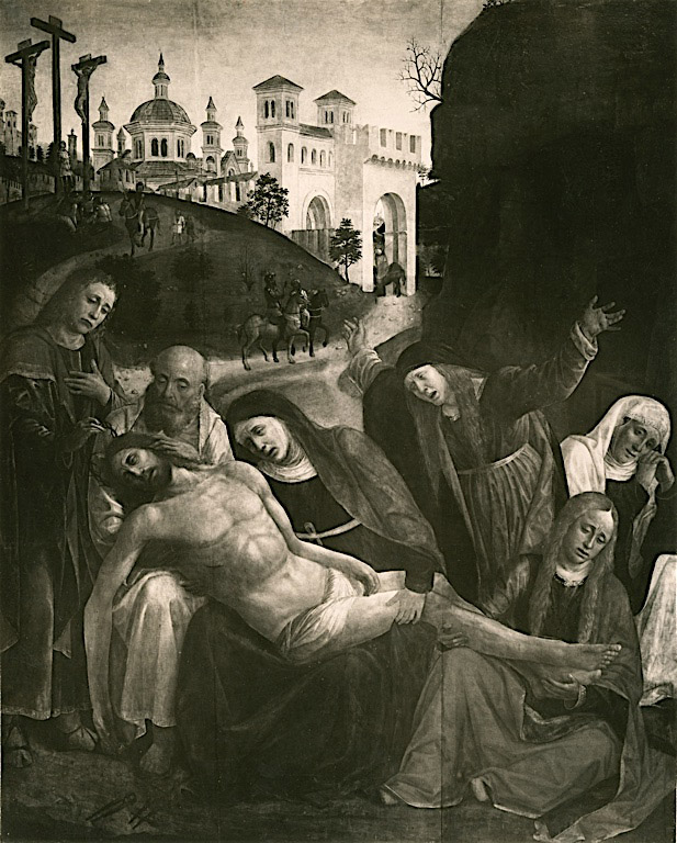 'Christ Mourned', by Vincenzo Foppa, a painting possibly destroyed in the Friedrichshain flak tower fire in Berlin, at the end of the Second World War (May 1945). The painting belonged to the collections of the Kaiser-Friedrich-Museum, now the Bode-Museum of Berlin.